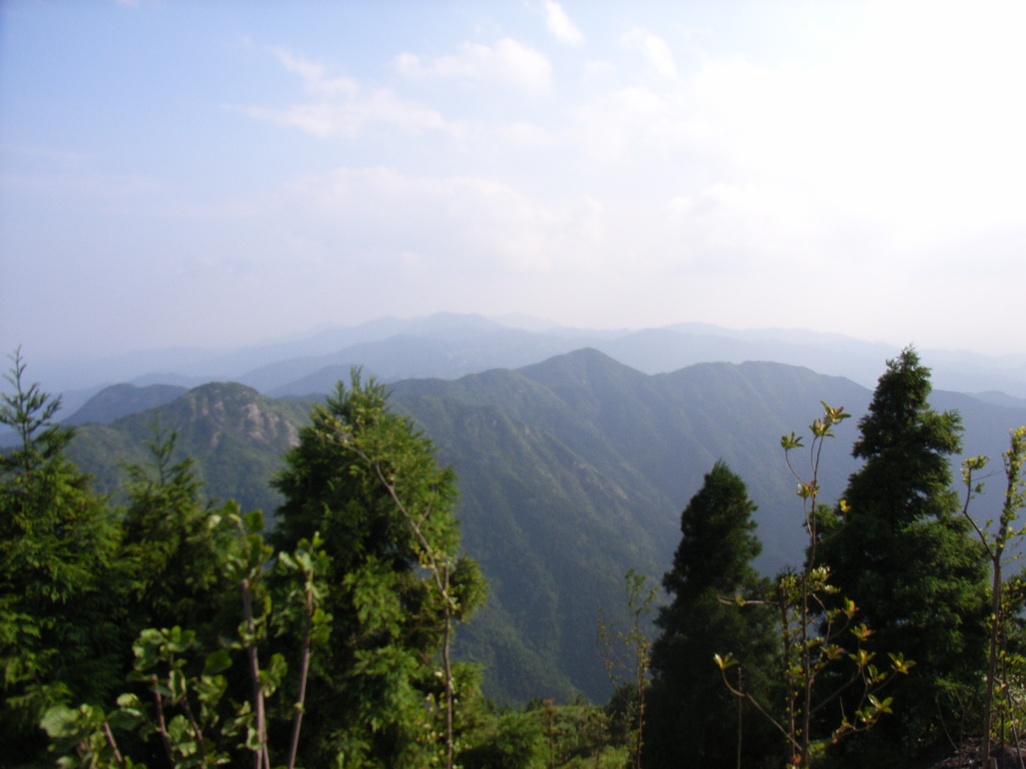 Hengshan Mountain View